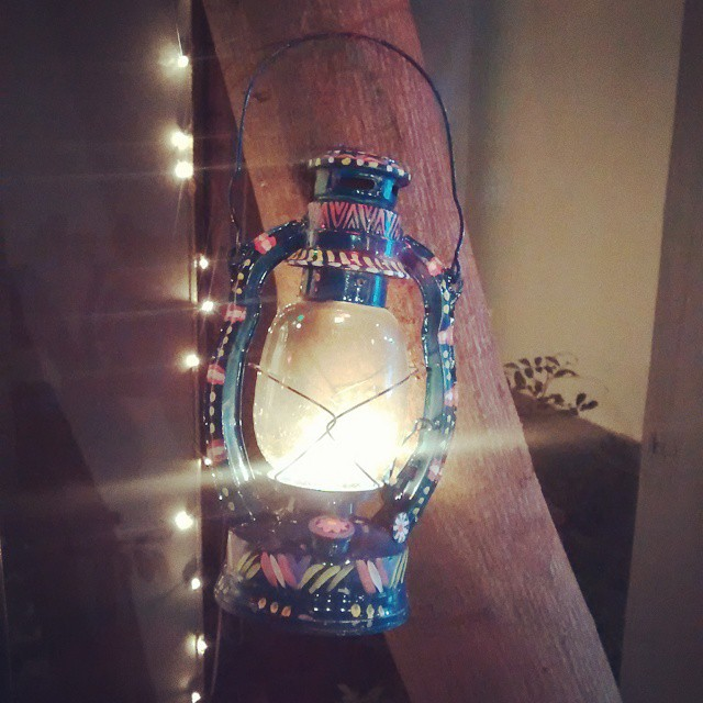 lamp -hariken, Bangladesh